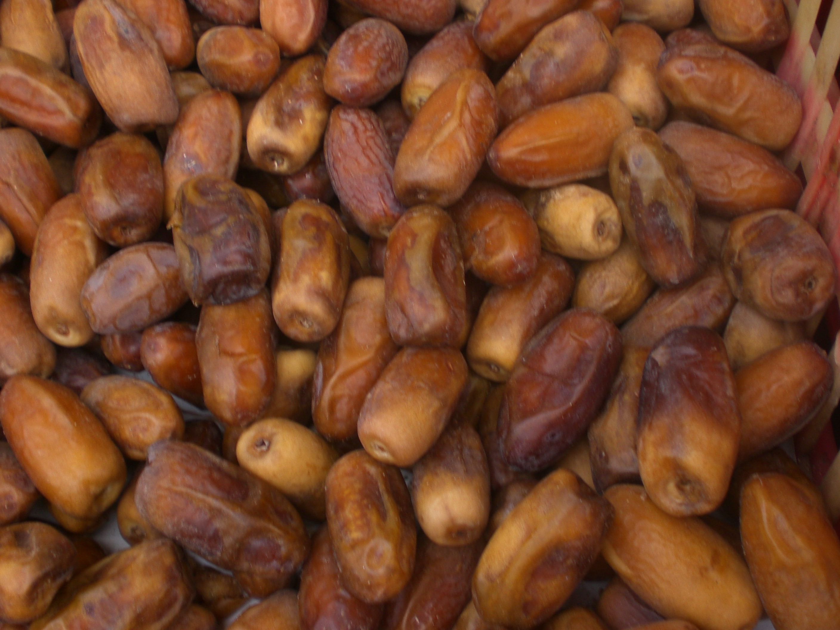 Kenta is a Tunisian date